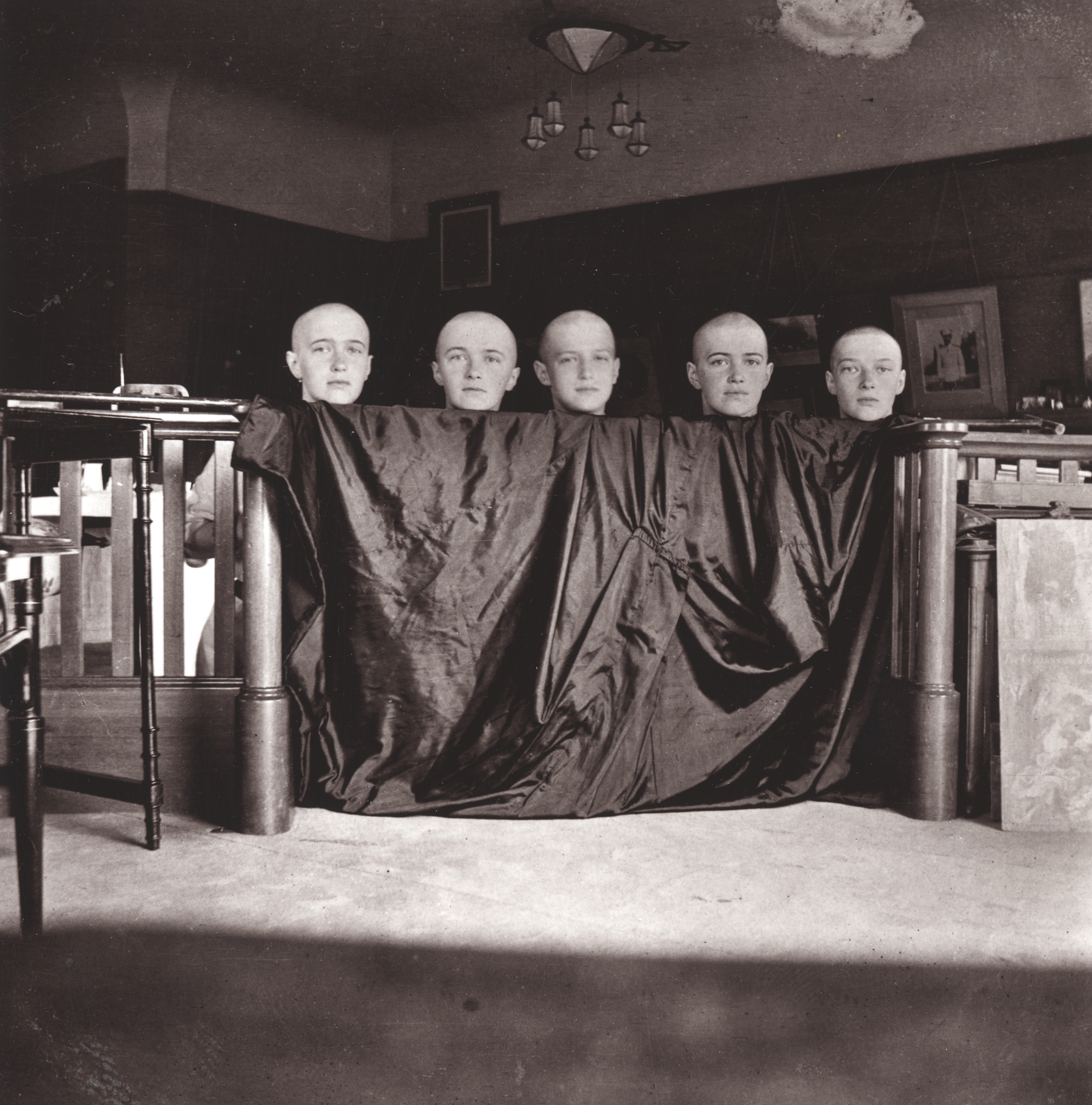 OTMAA after the measles. From left to right: Anastasia, Olga, Alexei, Maria, Tatiana